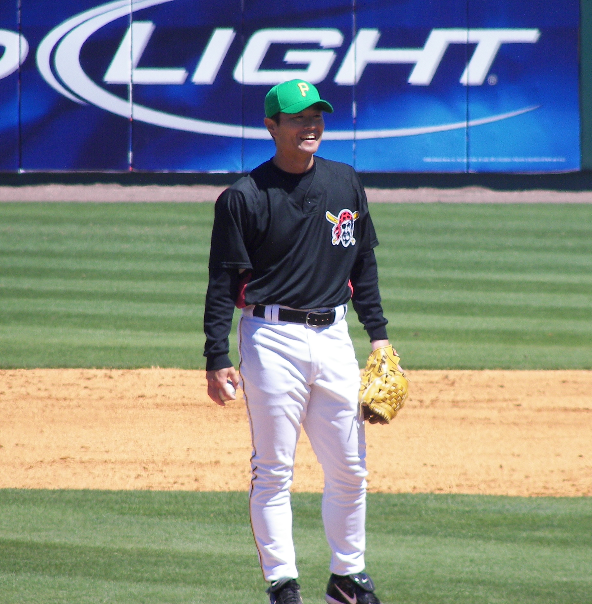 Pittsburgh Pirates pitcher Masumi Kuwata during a Pirates/Minnesota Twins spring training game at McKechnie Field in Bradenton, Florida.